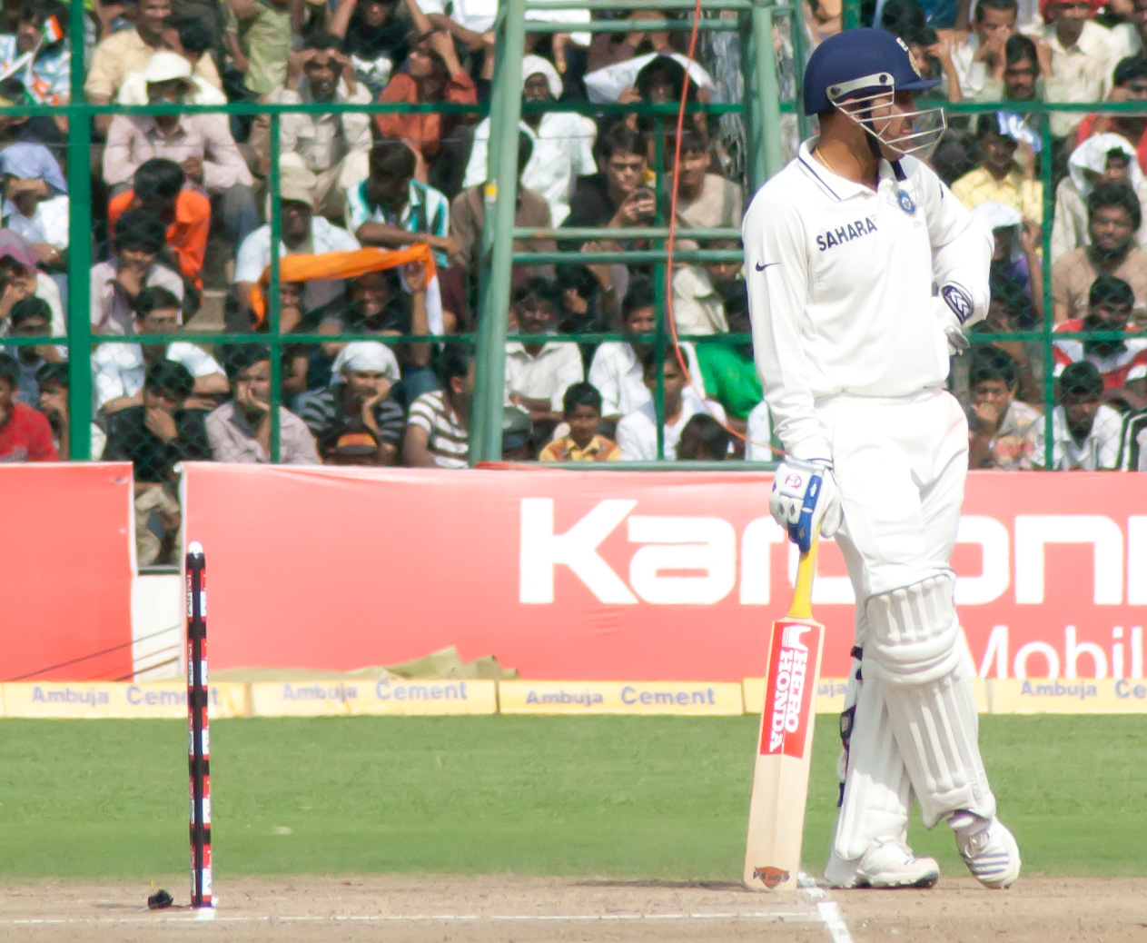 Virender Sehwag waits at the non-striker's end on Day 2 of the Second Test of the Border Gavaskar Trophy 2010 - 11.